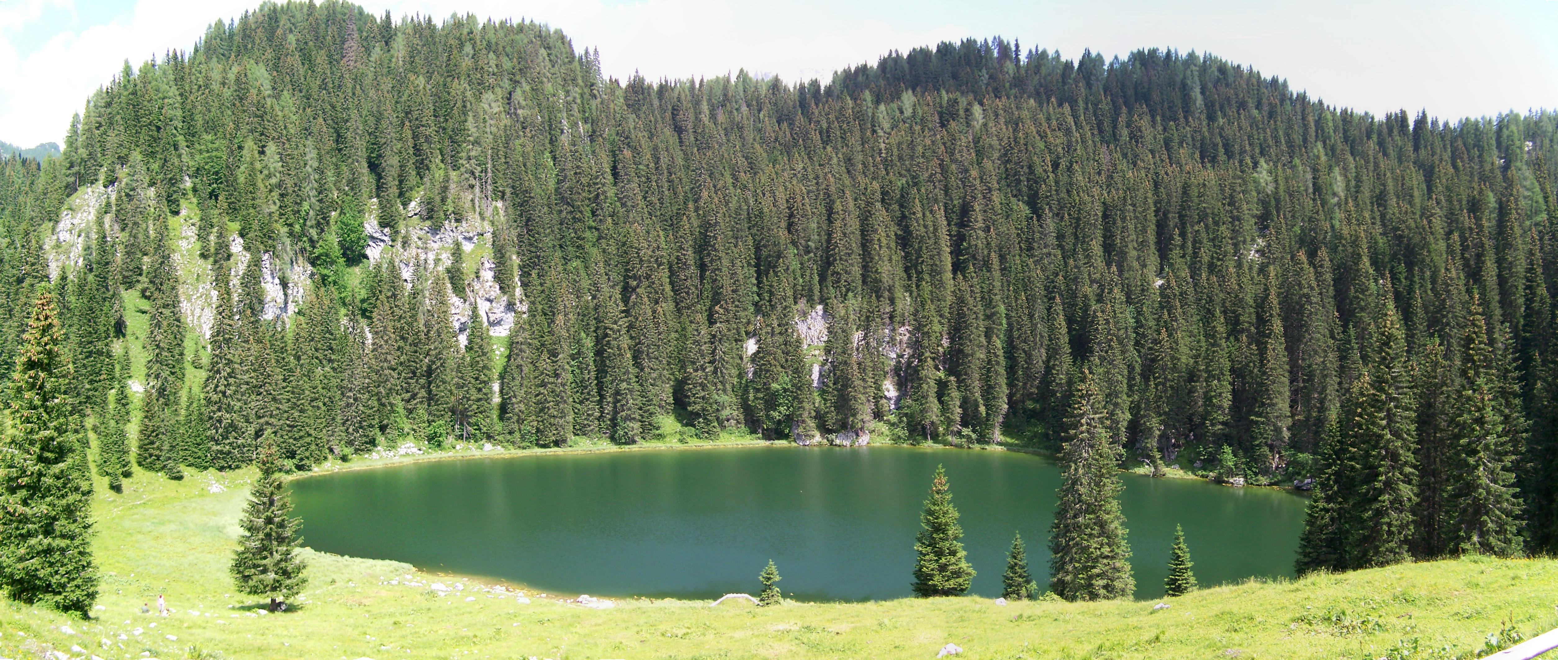 Picturesque tarn near the mountain pasture Planina pri Jezeru (1.453 m) in the Bohinj Lake region, Triglav National Park, Republic of Slovenia